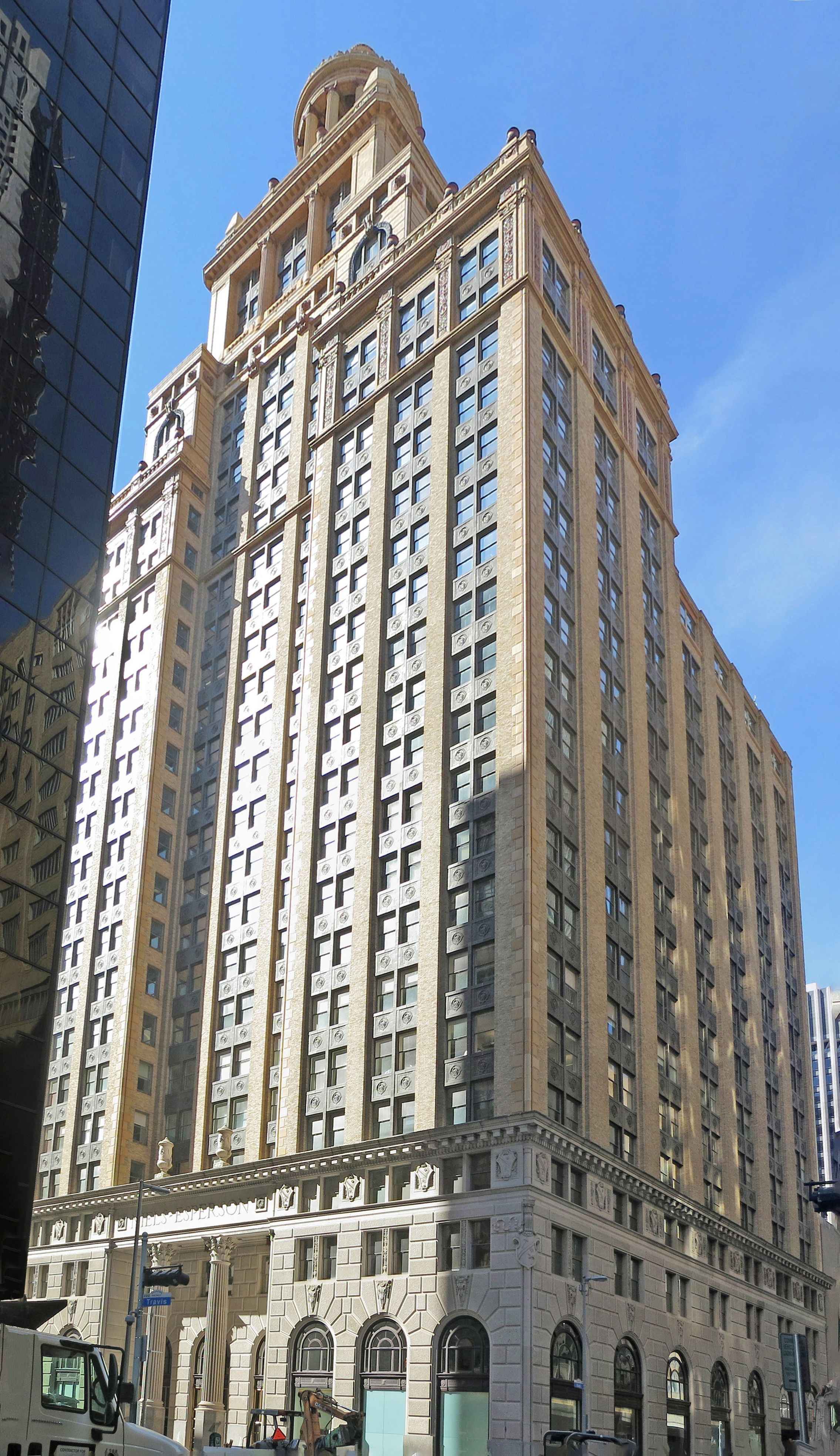 The Niels Esperson Building is the only complete example of Italian Renaissance architecture in Downtown Houston. Designed by theater architect John Eberson, the Esperson building was built in 1927. It's elaborately detailed with massive columns, great urns, terraces, and a grand tempietto at the top, similar to one built in the courtyard of San Pietro in Rome in 1502. His wife Mellie Esperson had the building constructed for her husband, Niels, a real estate and oil tycoon, and his name is carved on the side of the building, above the entrance, in large letters.